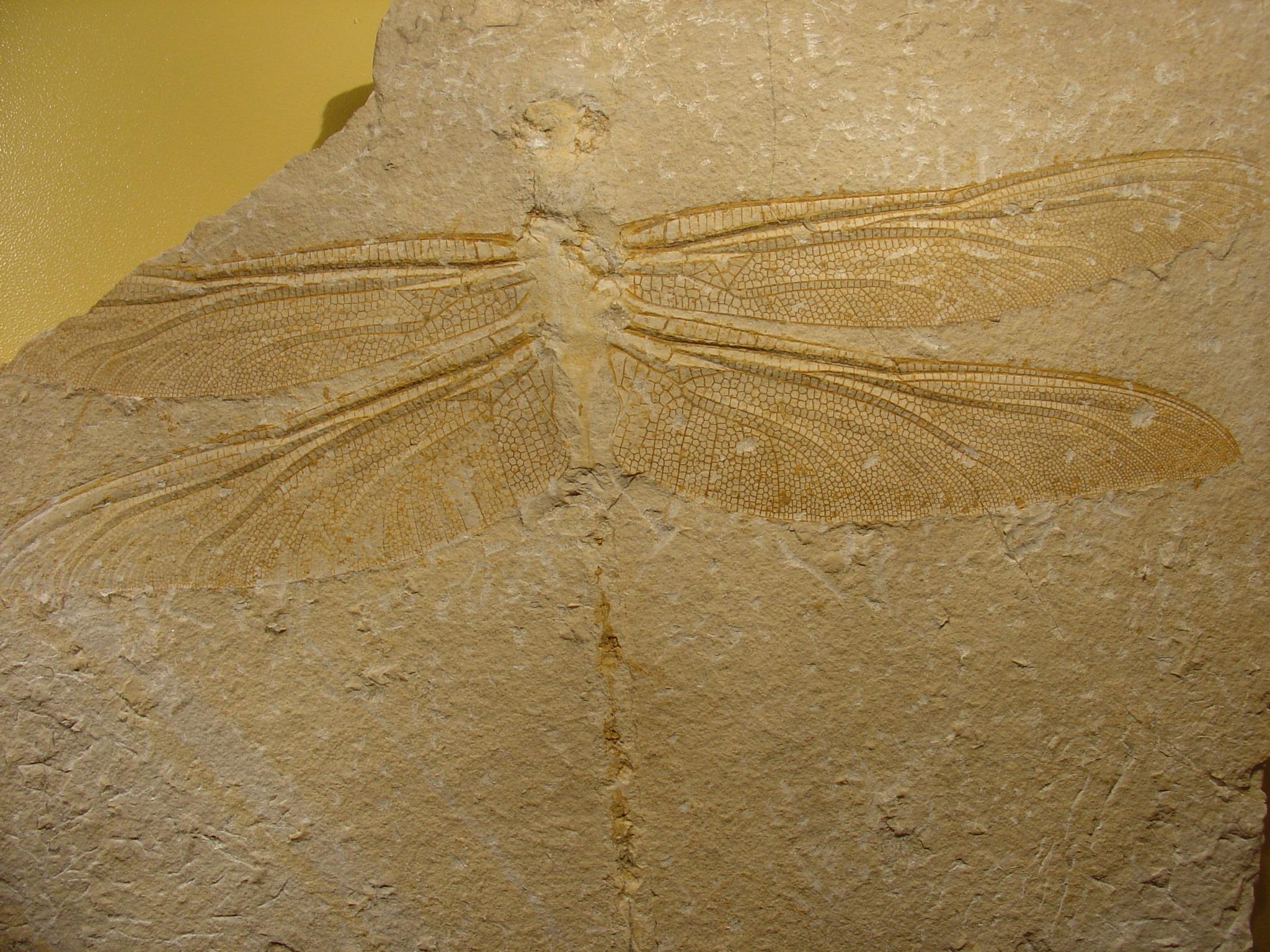 Fossil dragonfly in very fine-grained limestone of the Upper Jurassic (probably Solnhofen Lithographic LImestone), on display at Museum Mensch und Natur, Munich. Note the preservation of very delicate structures such as the venation of the wings.